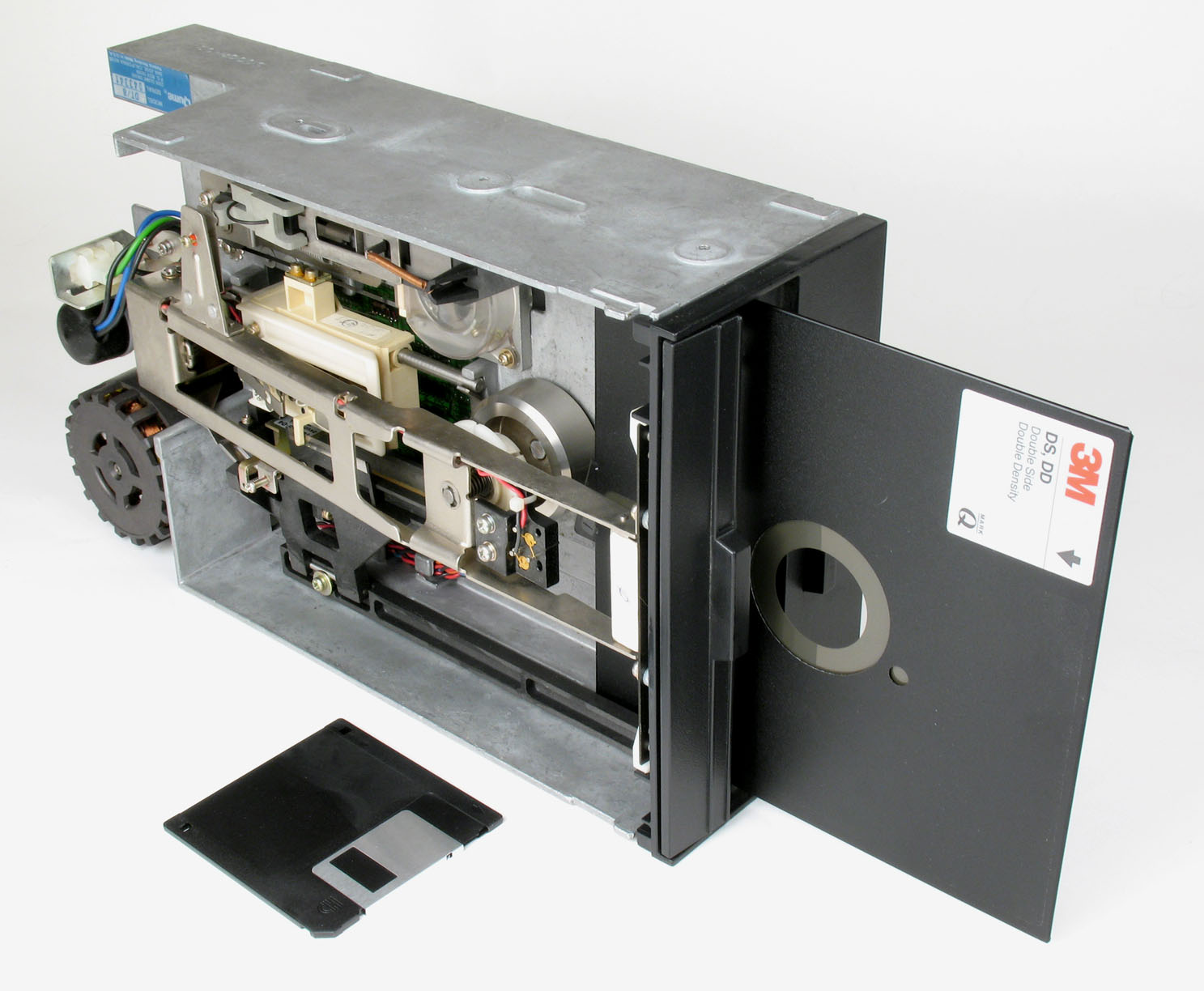 Qume 8 inch Floppy Disk Drive. Announced October 1978. Michalopoulos, D. A. (1978-12). "New Products". Computer 11 (12): 81. A new dual-sided, double-density diskette drive reduces media wear to far below industry norms, according to Qume Corporation. The company has obtained an exclusive right to manufacture the drive for the North American and European markets from Y. E. Data, Japan's leading supplier of floppy disk drives. [Six paragraphs of press release omitted.] The DataTrak 8 stores 1.6M bytes of unformatted data and 1.2M bytes of IBM-formatted data. Track-to-track access time is three msecs, average access time is 91 msecs, and settling time is 15 msecs. The drive's data transfer rate is 500K bits per second. Standard options include file protection, programmable door lock, and activity light. The drive is compatible with all existing drives, including IBM. The DataTrack 8 is immediately available and is priced at $755 in OEM quantities of 1-24. Qume (April 1979), "Memory Products, DataTrak 8, Products Specifications", Qume Manual [1] Power Requirements 115 VAC 0.8A Max 24 VDC 1.0A Max 5 VDC 1.3A Max Power Dissipation 55 watts Mechanical Height 117 mm (4.55 inch) Width 217 mm (8.55 inch) Depth 370 mm (14.57 inch) Weight 6 kg (13 lbs.) Photo by Michael Holley, July 2007 Taken with a Canon PowerShot A630 (1/5 second and f/8) under tungsten lighting. The image was touched up with Adobe Photoshop Elements 3.0.